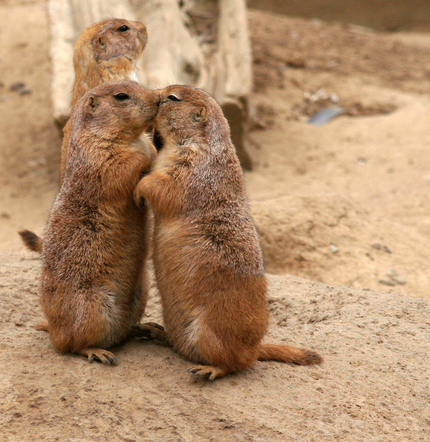 Kissing Prairie Dogs